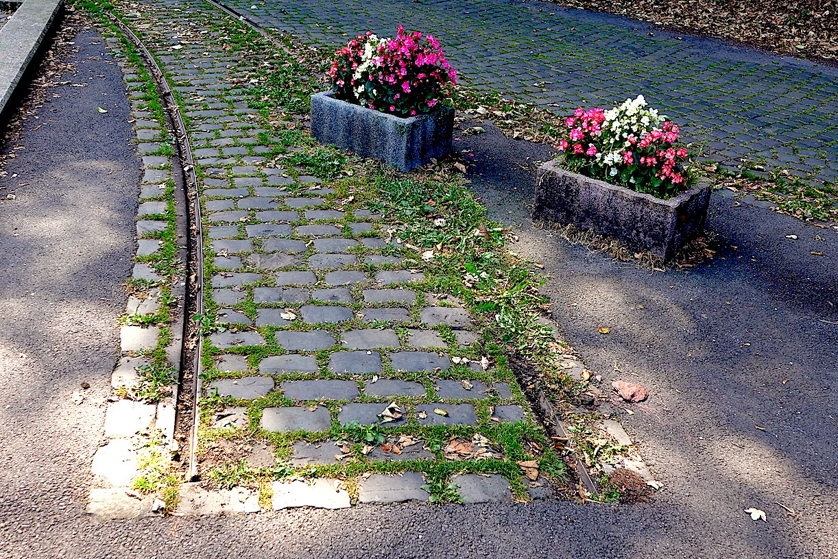 "Blade track" - the tourist marked route around the German city of Solingen (Northern Rhine-Westphalia). First stage: Gräfrath - Kohlfurth, 6,3 km.